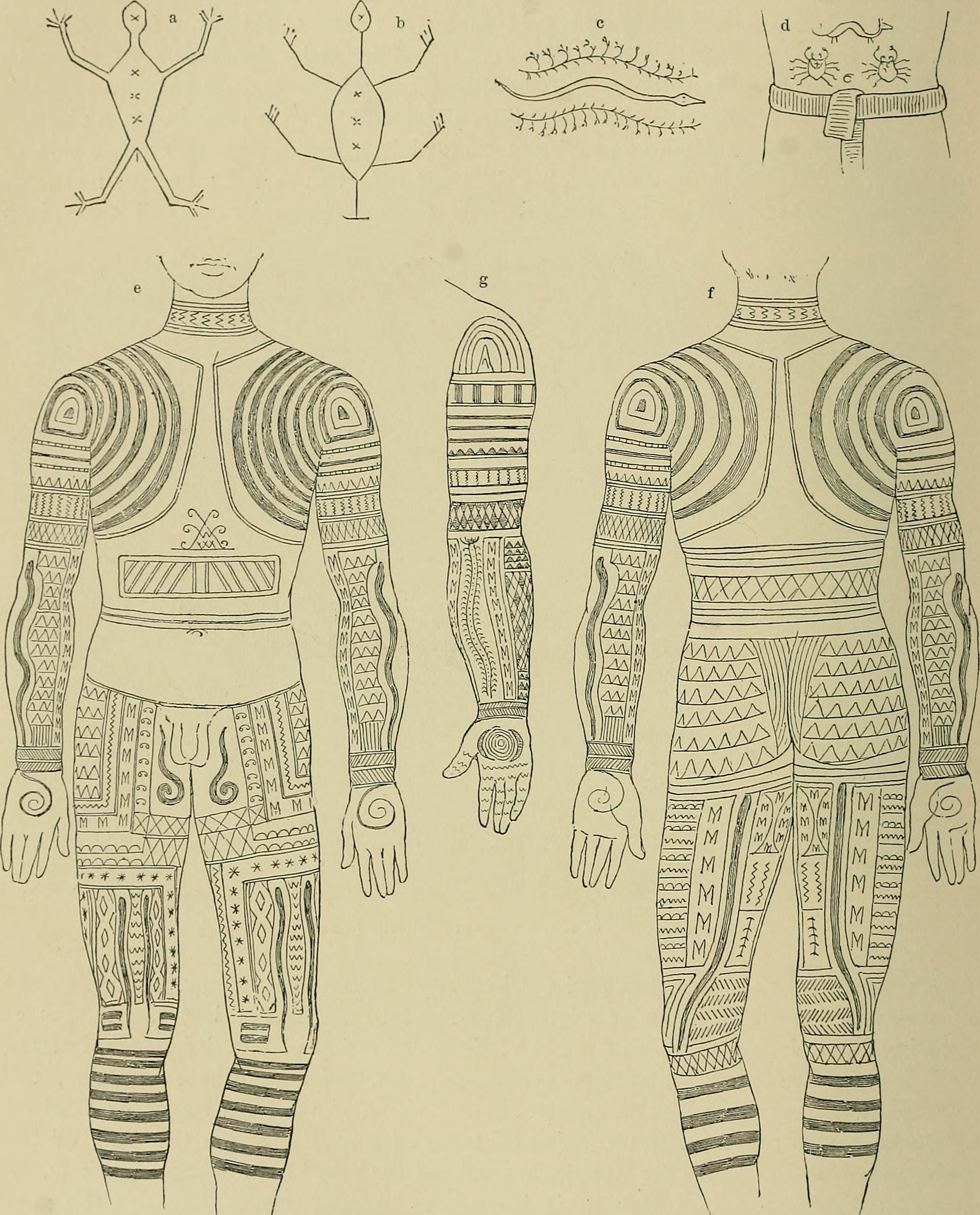 Title: The history of mankind Year: 1896 (1890s) Authors: Ratzel, Friedrich, 1844-1904 Butler, Arthur John, 1844-1910 Subjects: Ethnology Anthropology Publisher: London, Macmillan and co., ltd. New York, The Macmillan co. Text Appearing Before Image: tion. In pugilistic contests, thechampion wears on his head a carved ring of wood, in which a bunch of feathersis stuck. In the Moluccas the skins of birds of Paradise adorn the hair of thegirls, while false pig-tails for women are offered for sale in the Battak markets. The distribution of tattooing is irregular. Among the Formosans, the menwear horizontal stripes across the whole forehead ; the women from ear to ear, andperpendicular stripes as well. Tattooing of the hands is said to occur in theinterior of Formosa. In Luzon, almost every Igorrote has a figure of the sun onthe back of his hand. Punctured tattooing with Japanese or Chinese patterns isfound among the Catalangans. Among the Negritos as well as among theIgorrotes, scar-tattooing occurs. The skin is raised in folds over the whole body, 4io THE HISTORY OF MANKIND and rectilineal designs worked with a pointed iron style, or a splinter of bamboo.In Ceram, tattooing is only found in the west, and almost exclusively in women, Text Appearing After Image: I / Igorrote tattooing : a, b, designs on the calves of the legs ; c, d, on the stomach ; c front view ;/, back view of a Burik ; g, a womans arm. (From drawings by Dr. Hans Meyer.) on the breast, upper arm, navel, and forehead ; in Timorlaut it is universal.The tattooing of the Mentawei Islanders is executed in simple but elegantgeometrical lines. In Borneo, again, extensive tattooing has been observed DRESS, WEAPONS, AND OTHER PROPERTY OF THE MALAYS 411 almost solely among women, on the hands, feet, and the upper part of the thigh.Men often have merely a mark which possibly has a religious or social significa-tion ; on the forehead, one arm, or one leg. Thus all the Tanjan Dyaks are